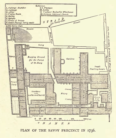 Plan of the Precinct of the Savoy, London, 1736.